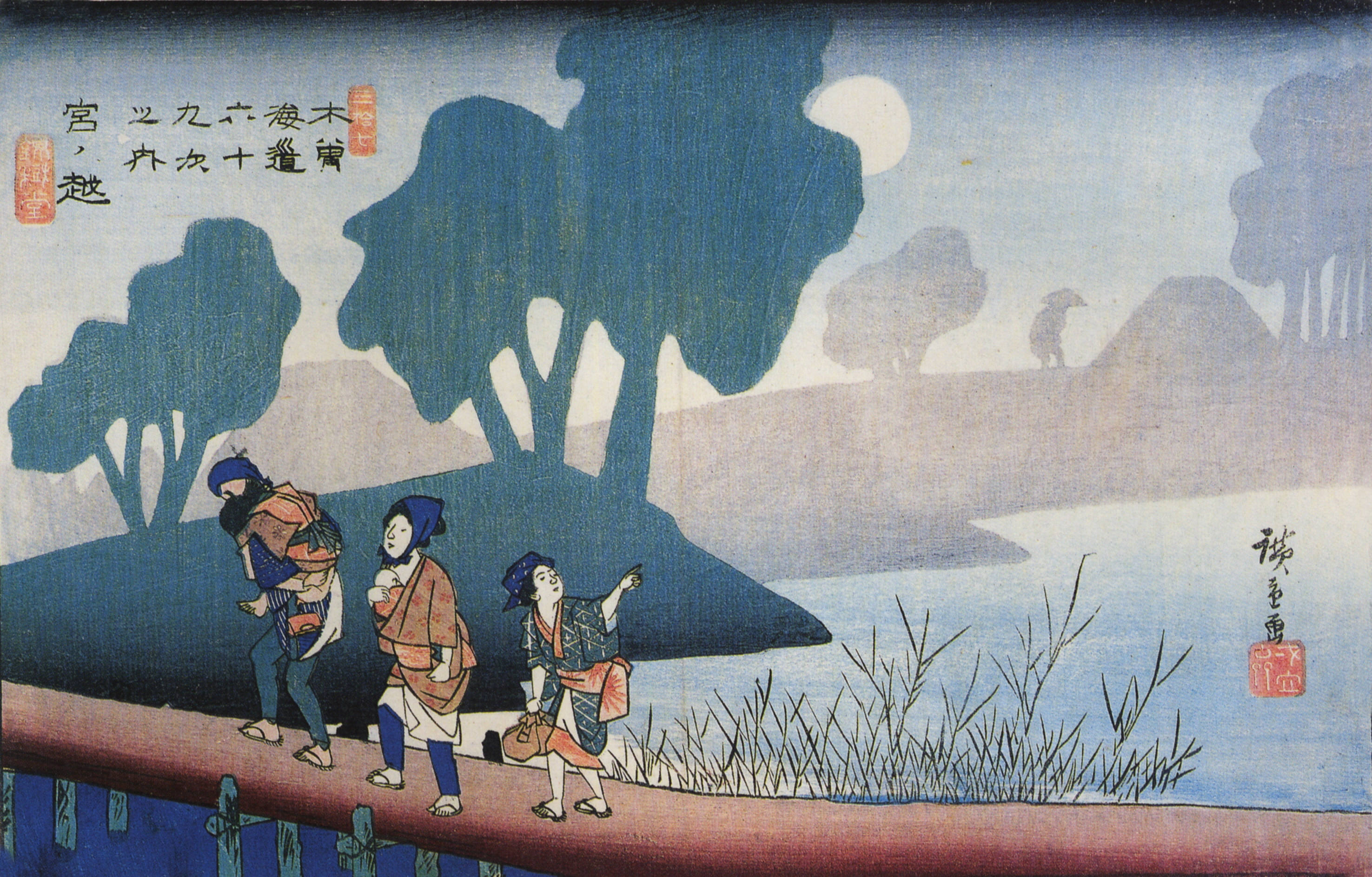 From Hiroshige's series Sixty-nine Stations of the Kisokaido (1834-1842), this is View 37 and Station 36 at Miya-no-koshi.